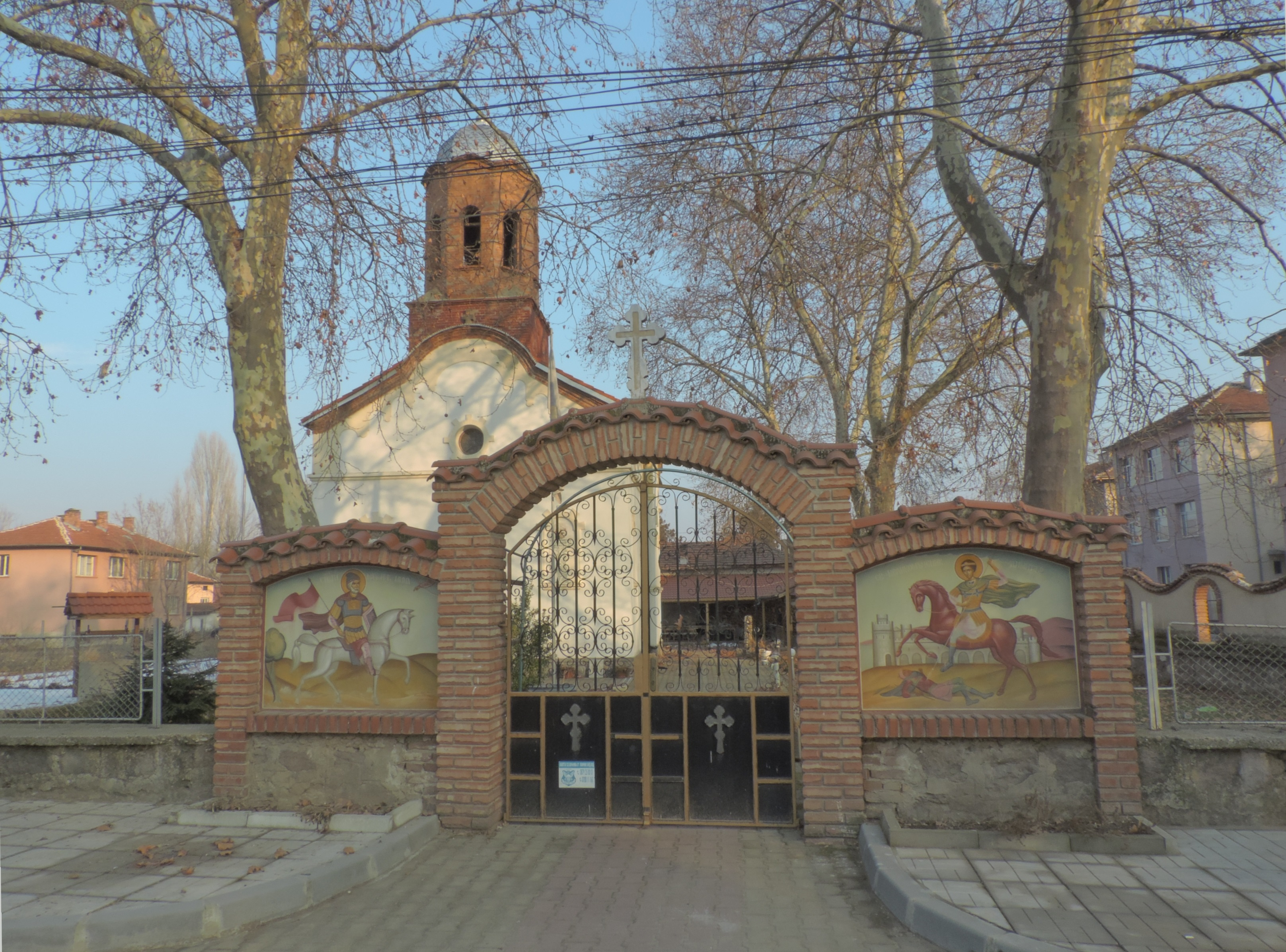 Church "Saint Dimitar" in village Isperihovo, Bratsigovo Municipality, Pazardzhik Province, Bulgaria.